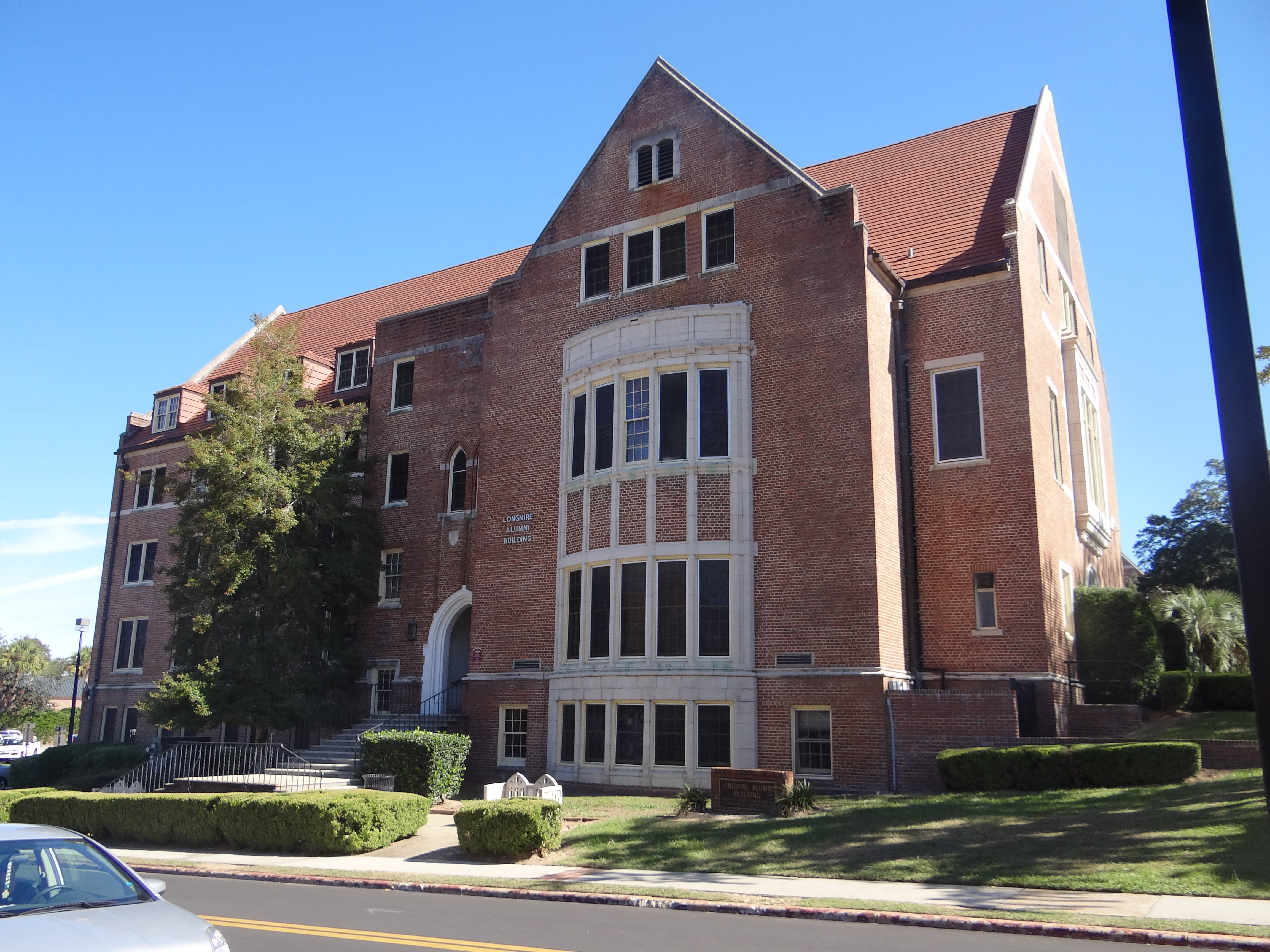 Picture of the Longmire Alumni Builing on the FSU main Campus